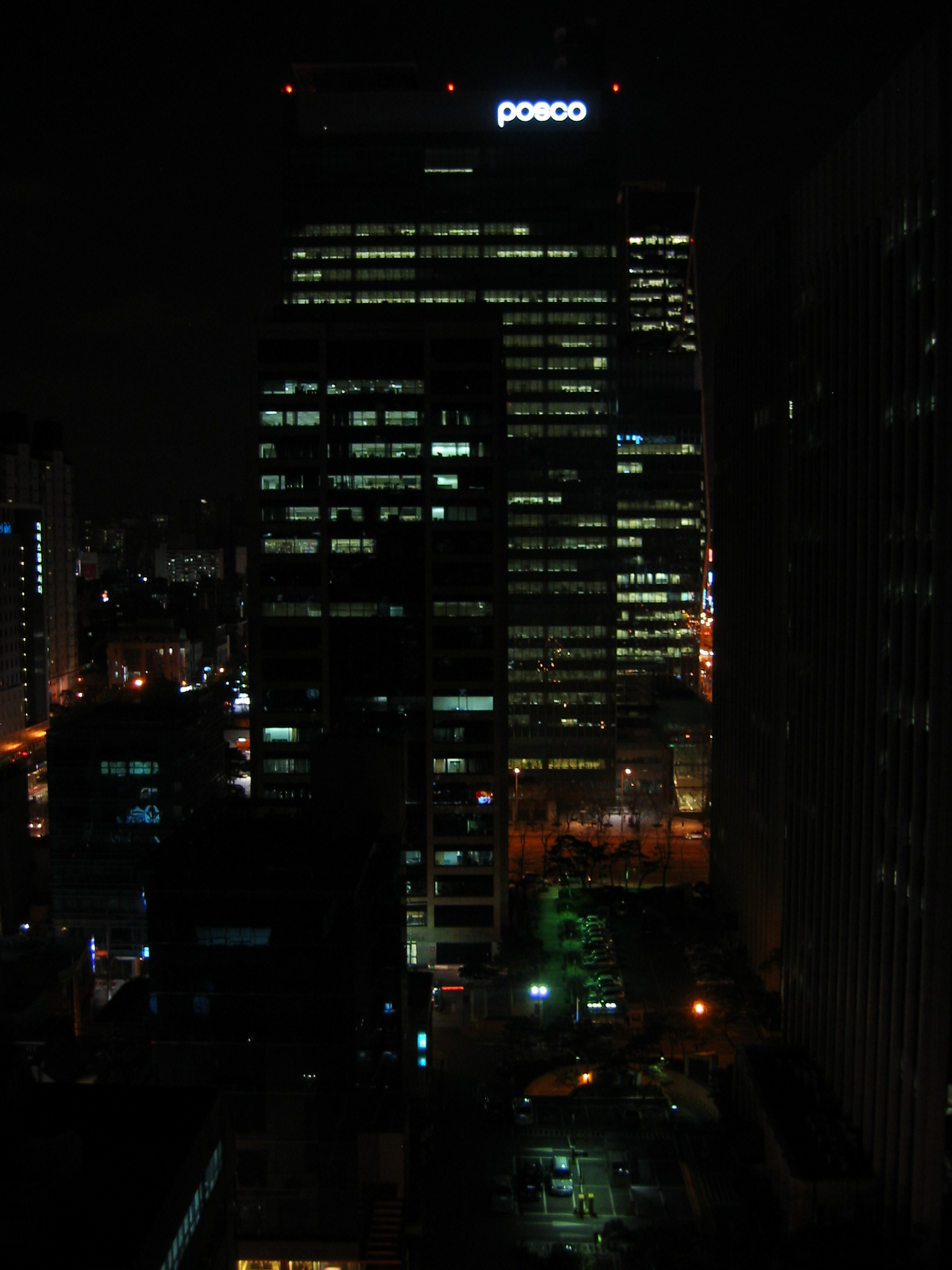 Posteel tower in Teheran-ro area, Seoul, Korea at night